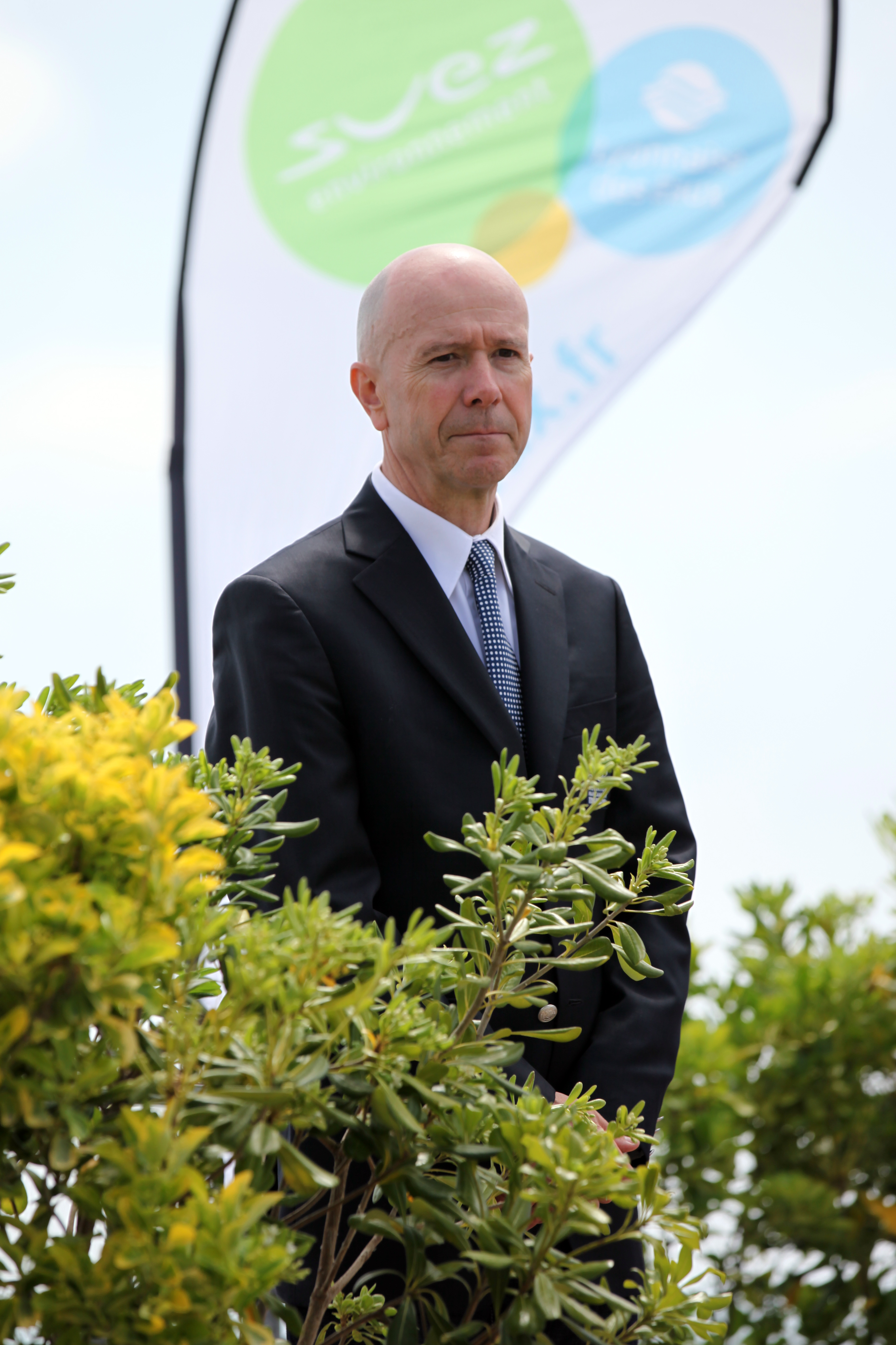 Philippe Lescure, President of the French Triathlon Federation FFTRI at the Grand Prix de Triathlon competition in Nice.